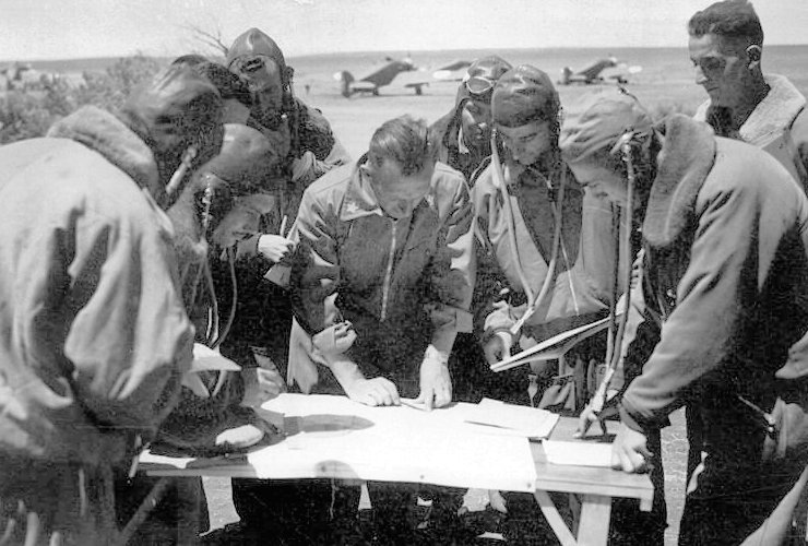 Italian pilots studying a map in Egypt (Sept, 1940)